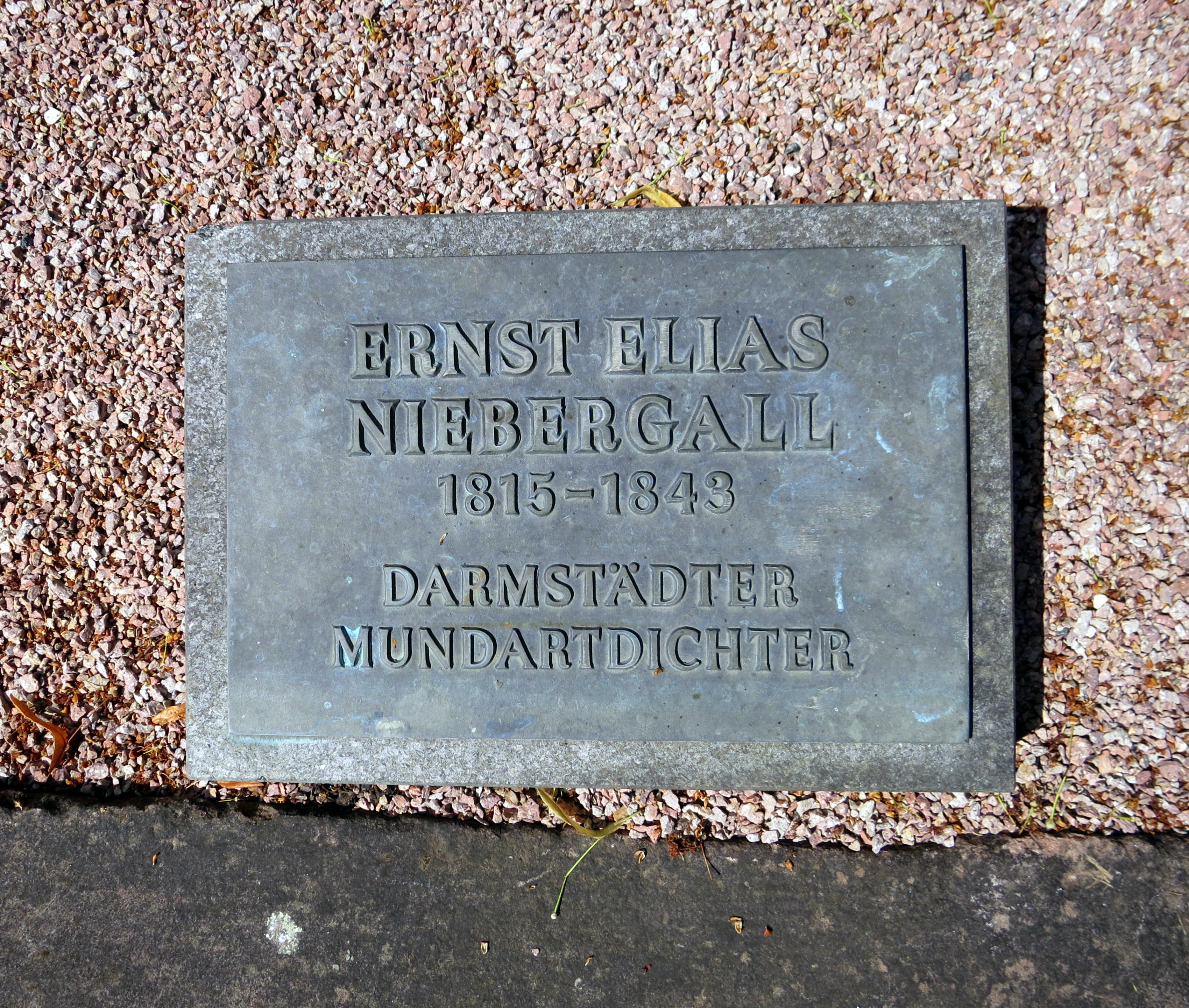 Honorary grave: Ernst Elias Nibergall (Writer)